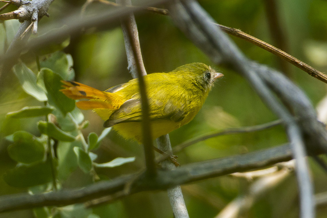 Livingstone's Flycatcher - Malawi_S4E3726